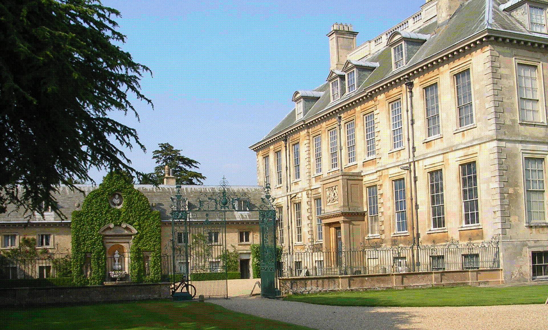 Belton House. West facade.